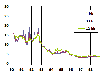 Finnish Helibor interest rates from 1990 to 1998 (small size).